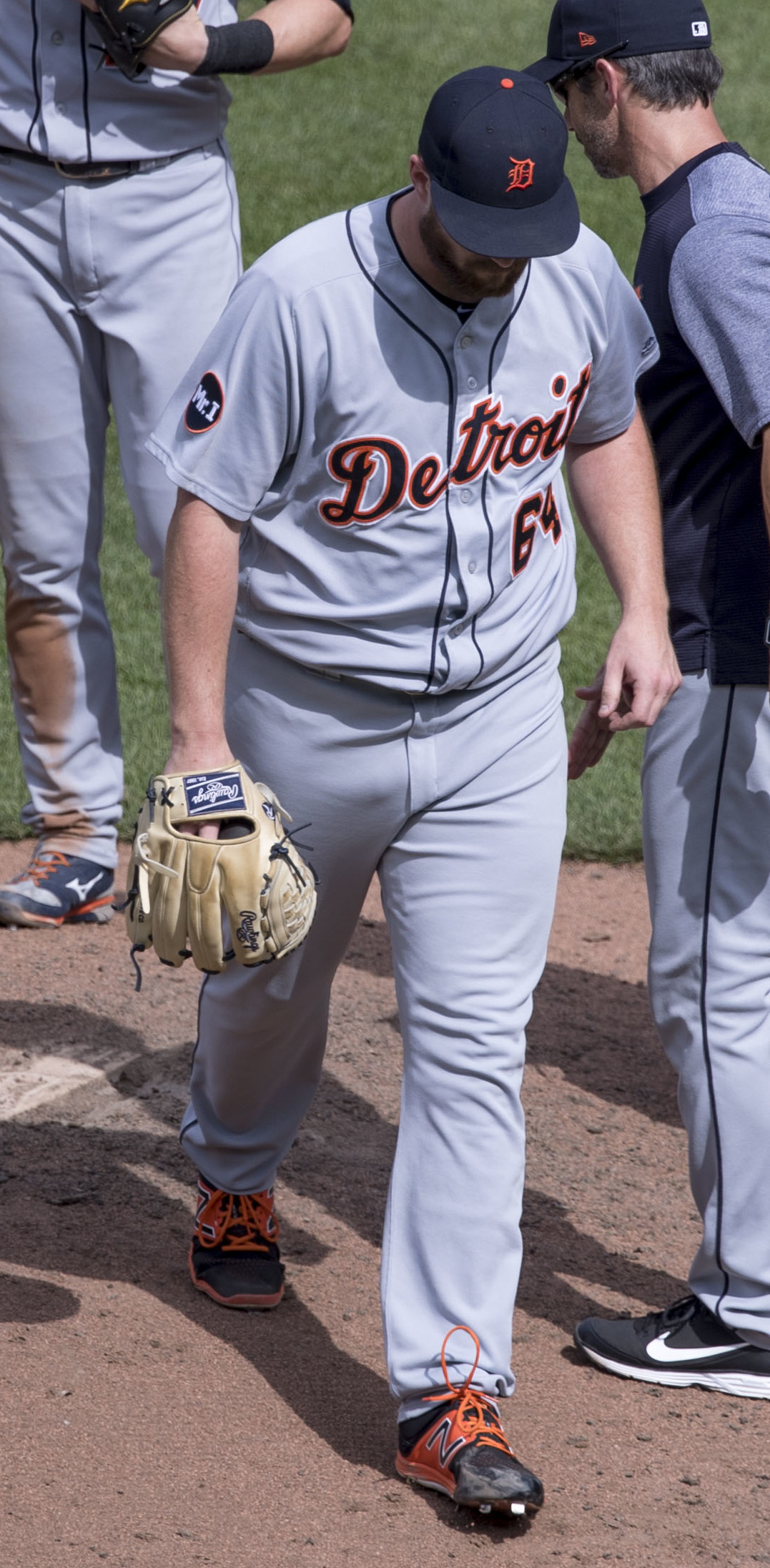 Chad Bell of the Detroit Tigers walks off the mound at Camden Yards in 2017